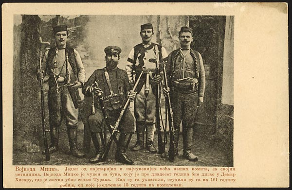 Voivode Micko Krstić